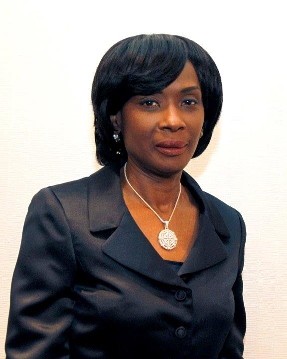 President and CEO of Whittier Street Health Center